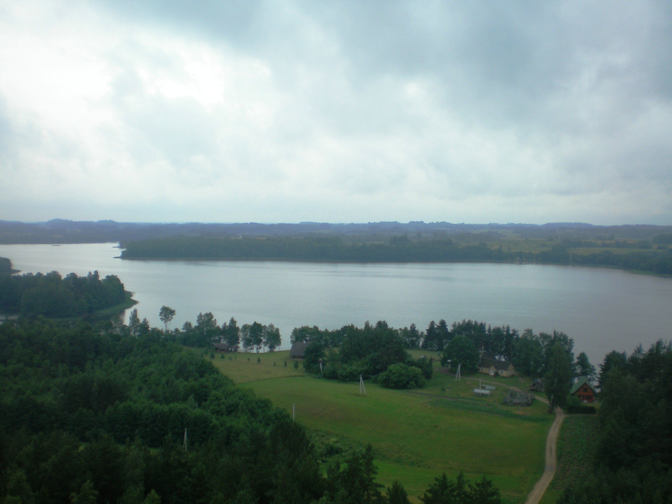 Ūkojas Lake from view tower